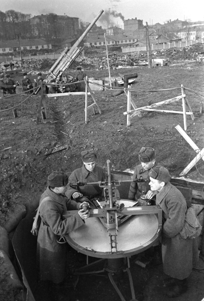 “Anti-aircraft gunners defending Moscow”. Anti-aircraft gunners defending Moscow.